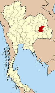 Map of Thailand highlighting Roi Et province